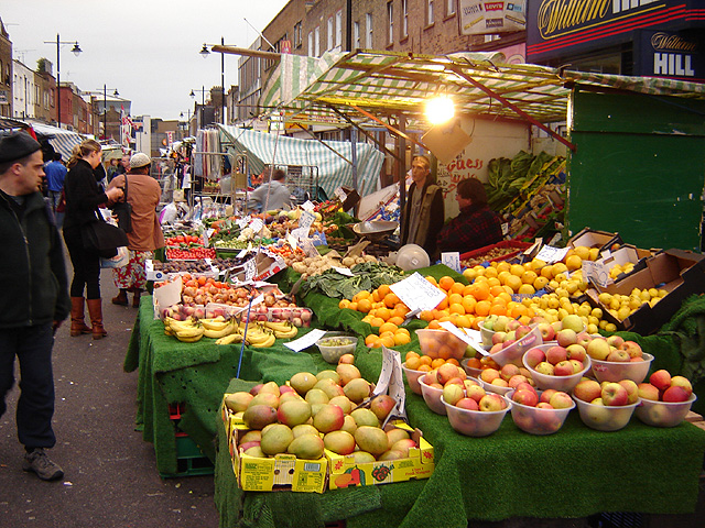 Chapel Market, The Angel, Islington, London. 5 November 2005. Photographer: Fin Fahey.